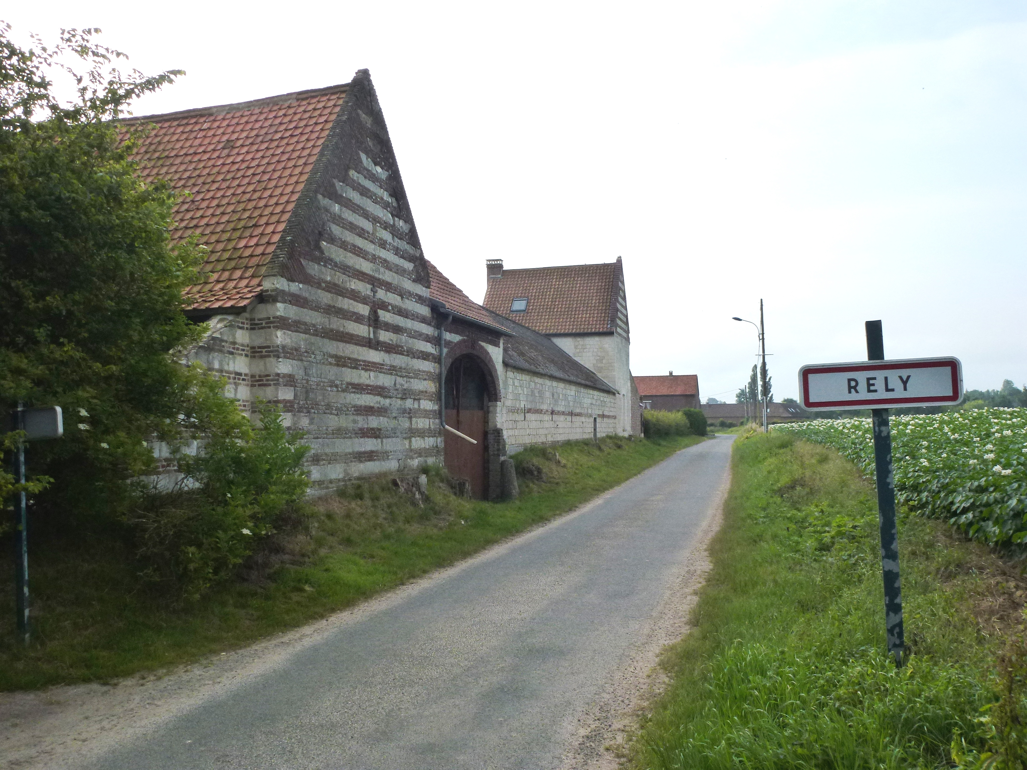 Rely (Pas-de-Calais) city limit sign and farm